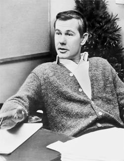 Johnny Carson talks about TV commercials. Johnny Carson, half-length portrait, seated behind desk.